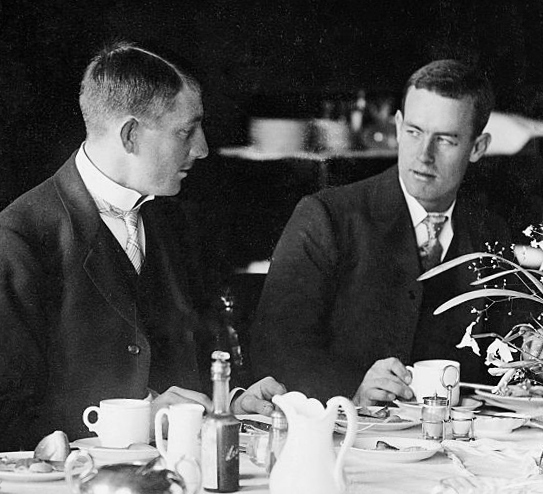 A vintage photograph of Australia cricket team members, left to right, Warwick Armstrong and Victor Trumper having a meal during the Australian tour of England, circa 1905. A photograph from the personal archive of Australian cricketer Frank Laver (1869-1919) whose images give a unique glimpse into the life of the Australian team at home, and on tour, between 1899 and 1909. Frank Laver played 15 Test matches for Australia, and visited England as a player and team manager on four occasions. An accomplished photographer and author, he wrote an illustrated account of his 1899 and 1905 tours of England, An Australian Cricketer on Tour.